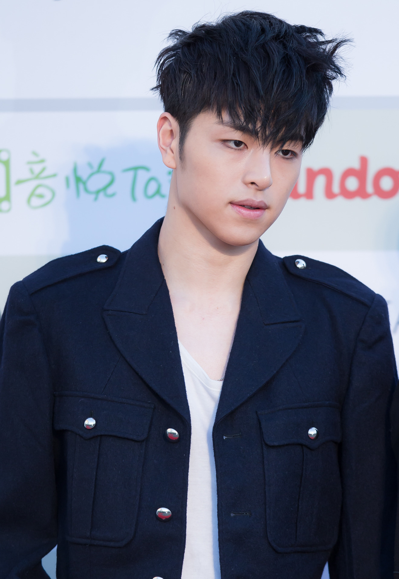 iKON's Jun-hoe on the 2016 Gaon Chart K-pop Awards red carpet.